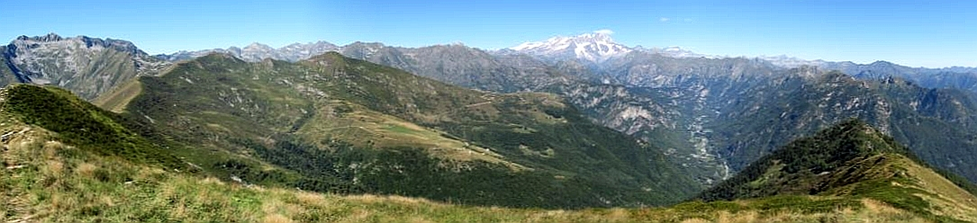 Panorama from Cima d'Ometto (Piedmont, Italy), in the centre the Monte Rosa, on the left mounto Bo group